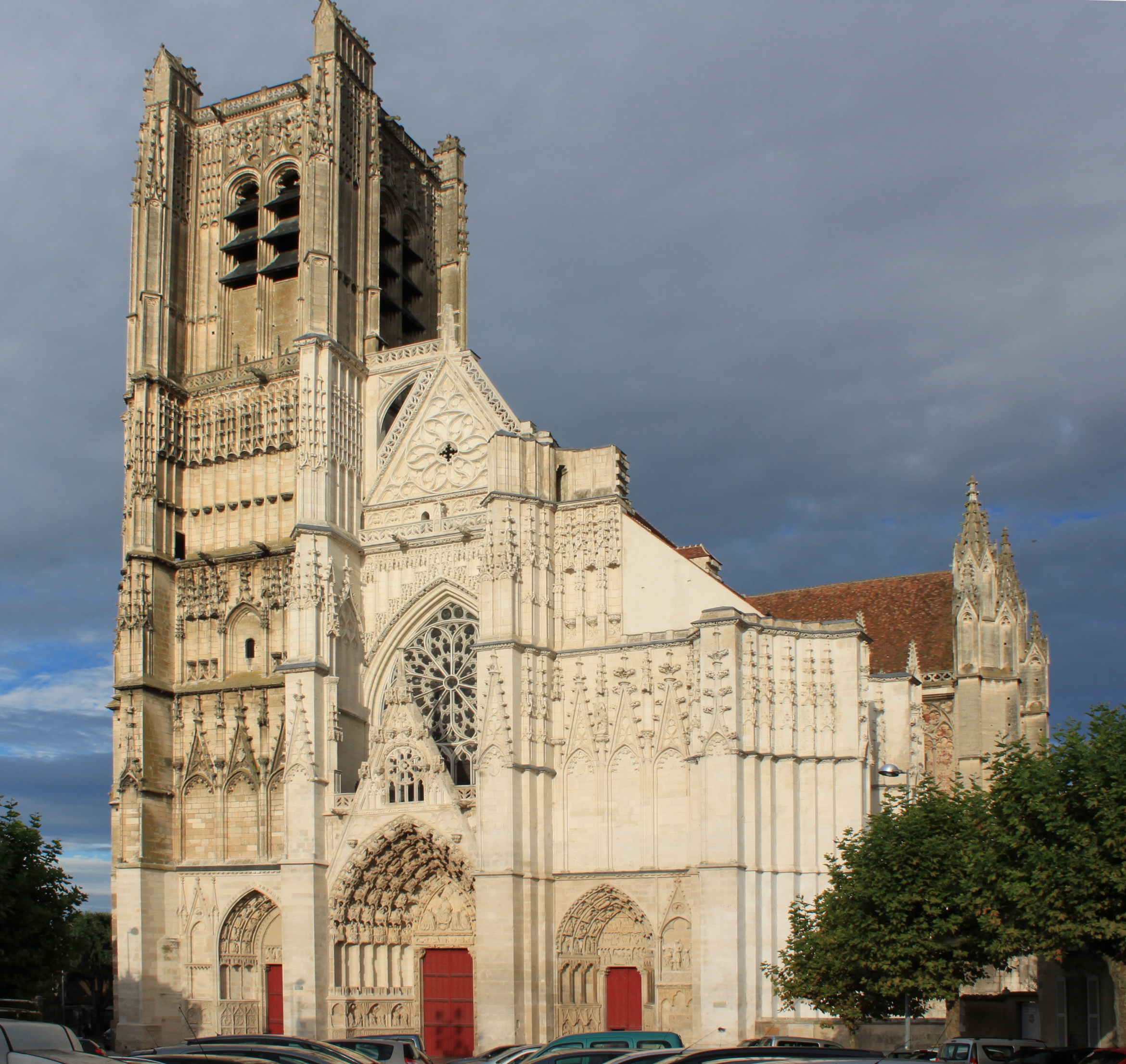 Main Facade of Saint-Etienne cathedral, Auxerre, France